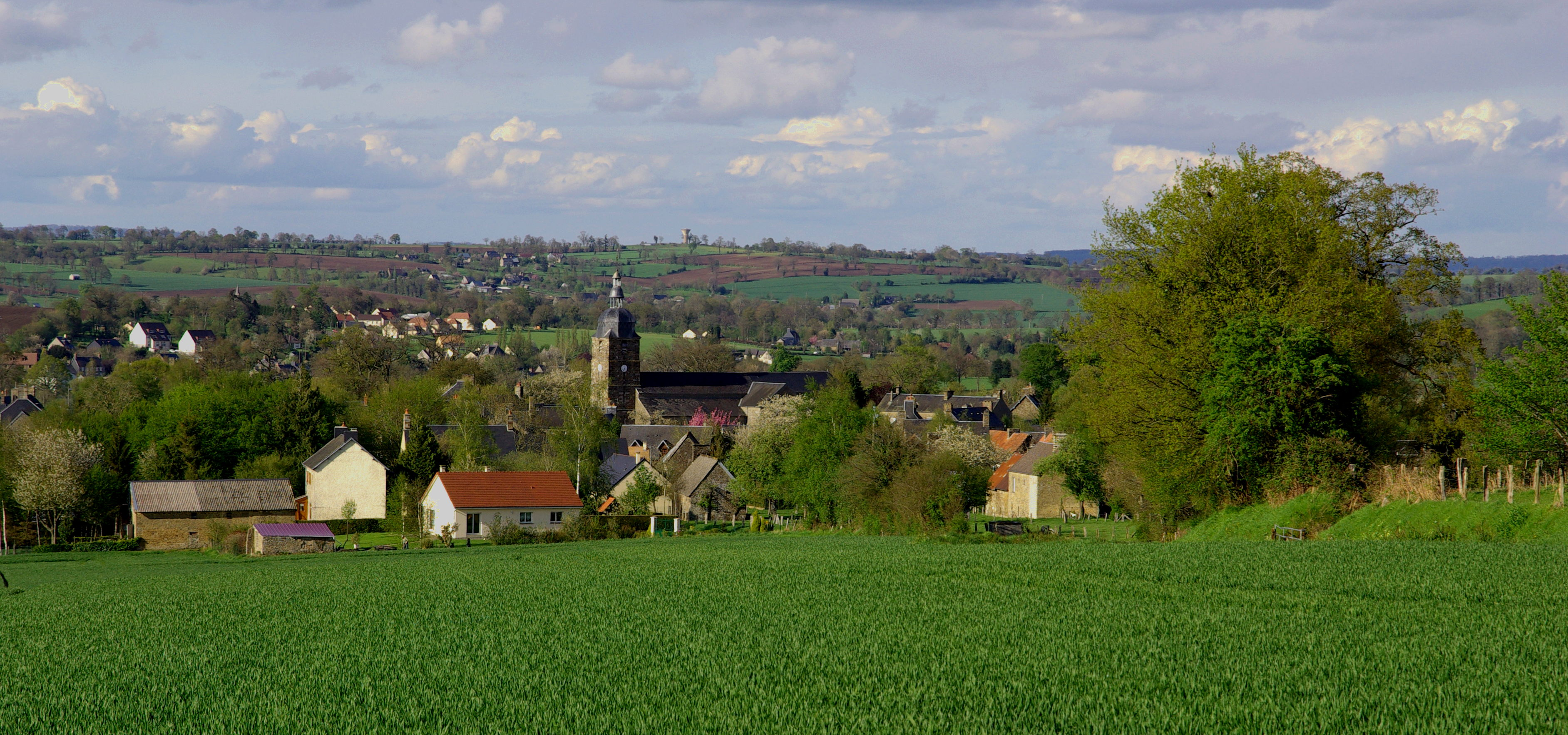 Frênes village in Orne 61 France